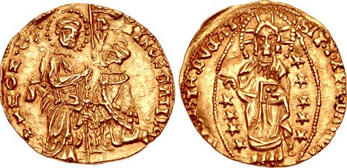 ITALY, Genova. Dorino Gattilusio, Lord of Chios, Lesbos, and Phocaea. 1428-1455. AV Ducat (21mm, 3.52 g, 3h). Foglia Vecchia (Phocaea) mint. •/D/•/F/O/L/I/Є D/V/•/DORINVS : CΛTIL, S. Marco standing right and Doge kneeling left, holding banner between them / • SIT • T • XPЄ • DΛT, Q’ • T RЄGIS ISTЄ DVCΛT, Christ standing facing, raising hand in benediction and holding Gospels, surrounded by mandorla containing nine stars; pellet below feet. Schlumburger, pl. XVII, 6; Ives pl. XII, 4; Gamberini 349; Friedberg 8. Good VF, toned. Rare.